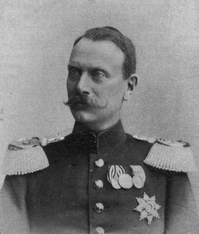 Frederick II, Grand Duke of Baden (1857-1928), in 1902.